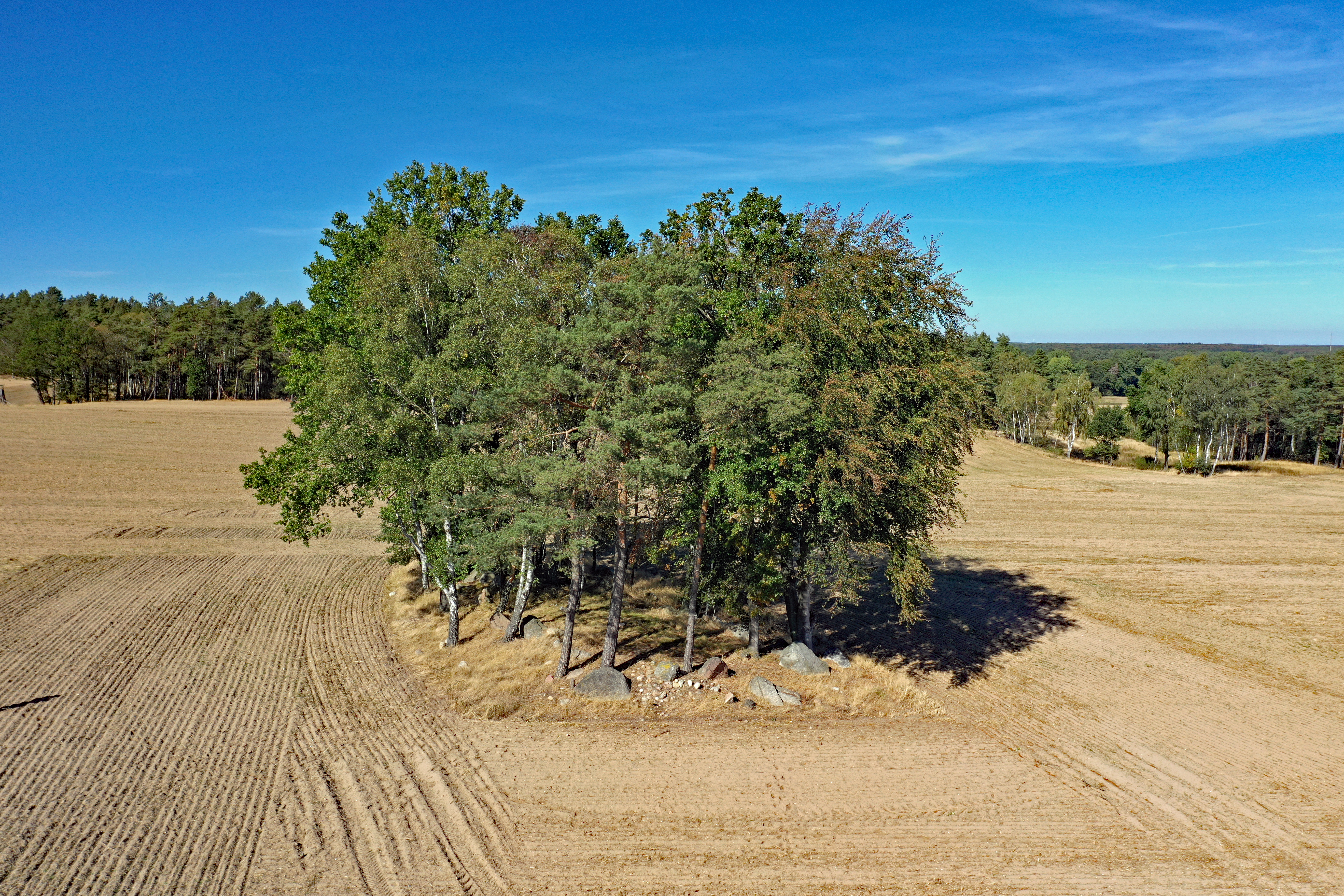 Megalithic in Altmark (Saxony-Anhalt, Germany) Molmke